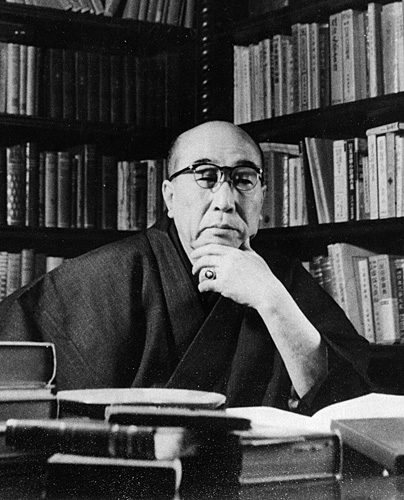 Japanese novelist Edogawa Ranpo